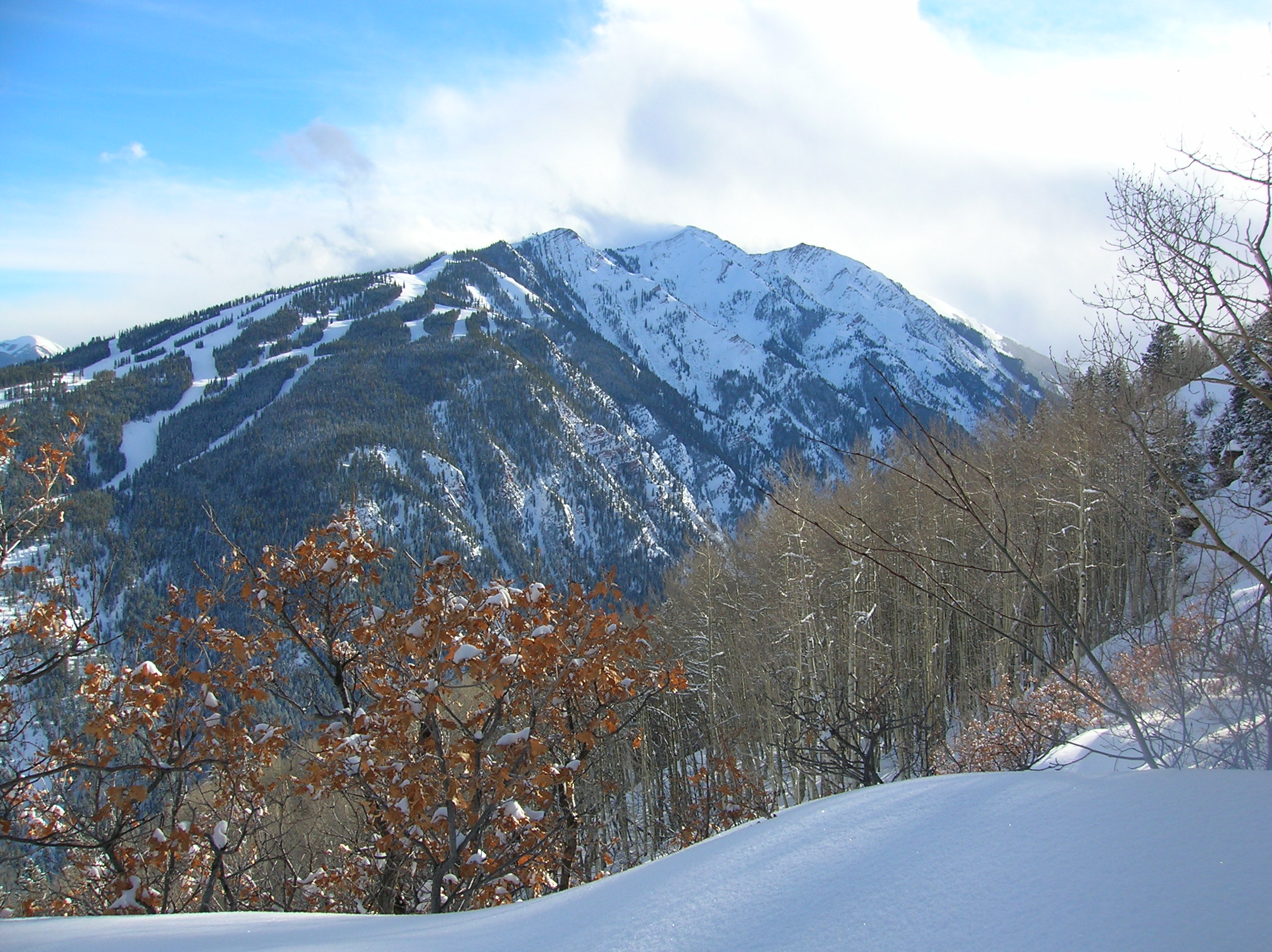 c. hassig, personal photo